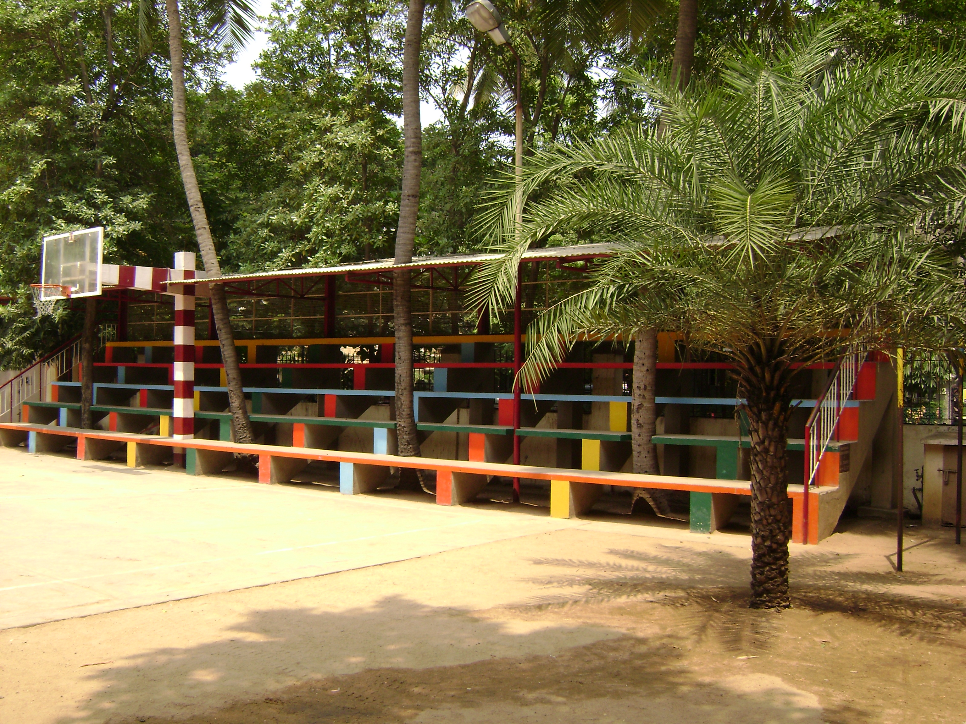 Mini Stadium in Loyola School